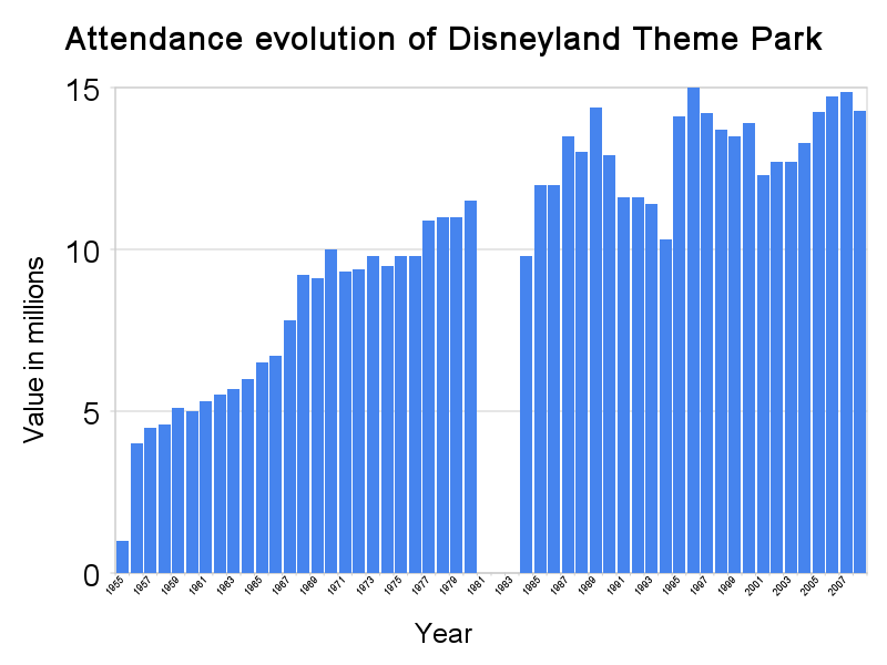 Attendance evolution of Disneyland Theme Park. (Alaso available here)